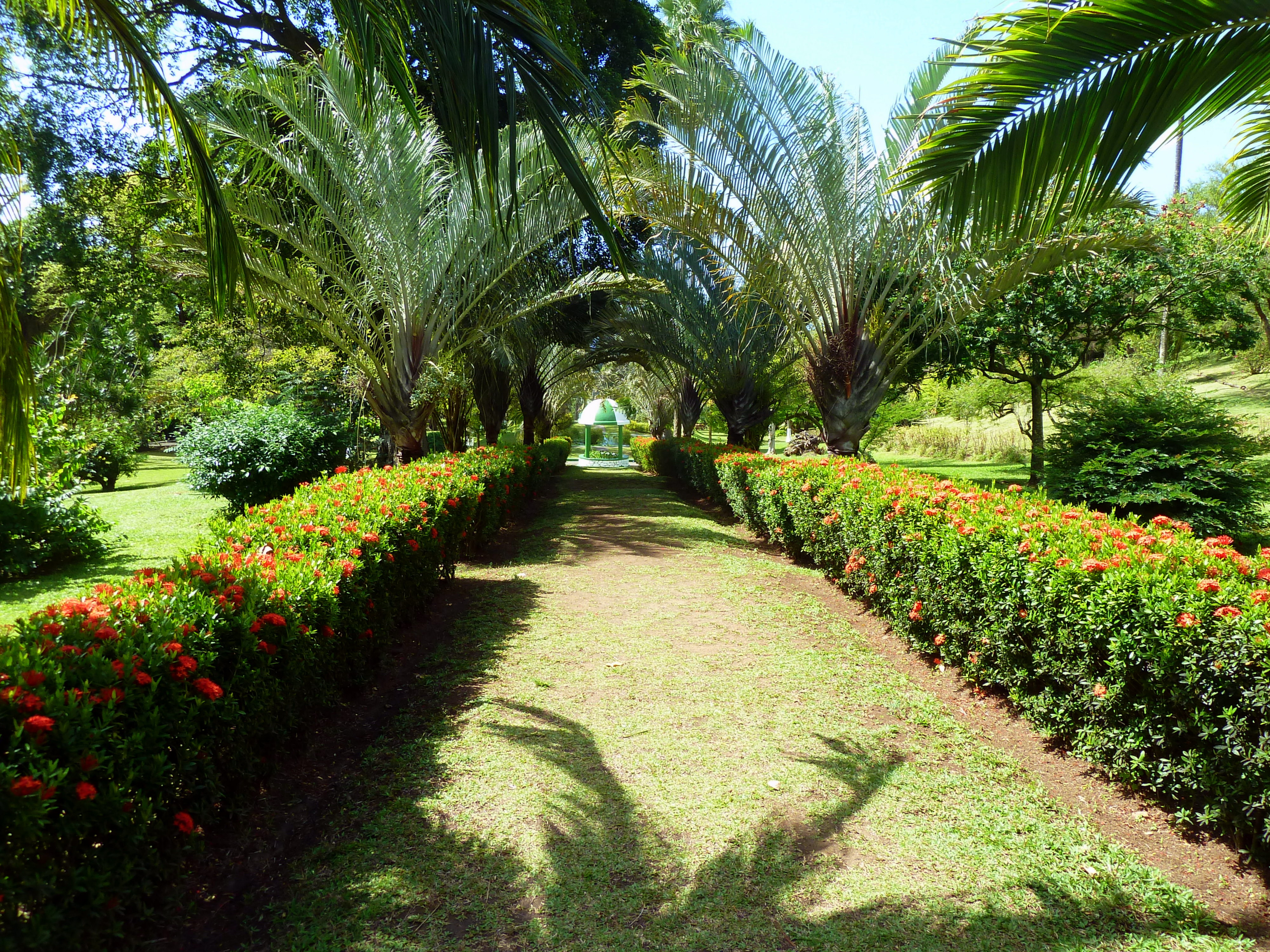 St. Vincent, Karibik - Botanical Garden of Kingstown